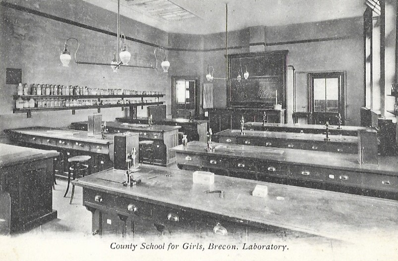 Laboratory, Brecon County School for Girls. Photo from a postcard.